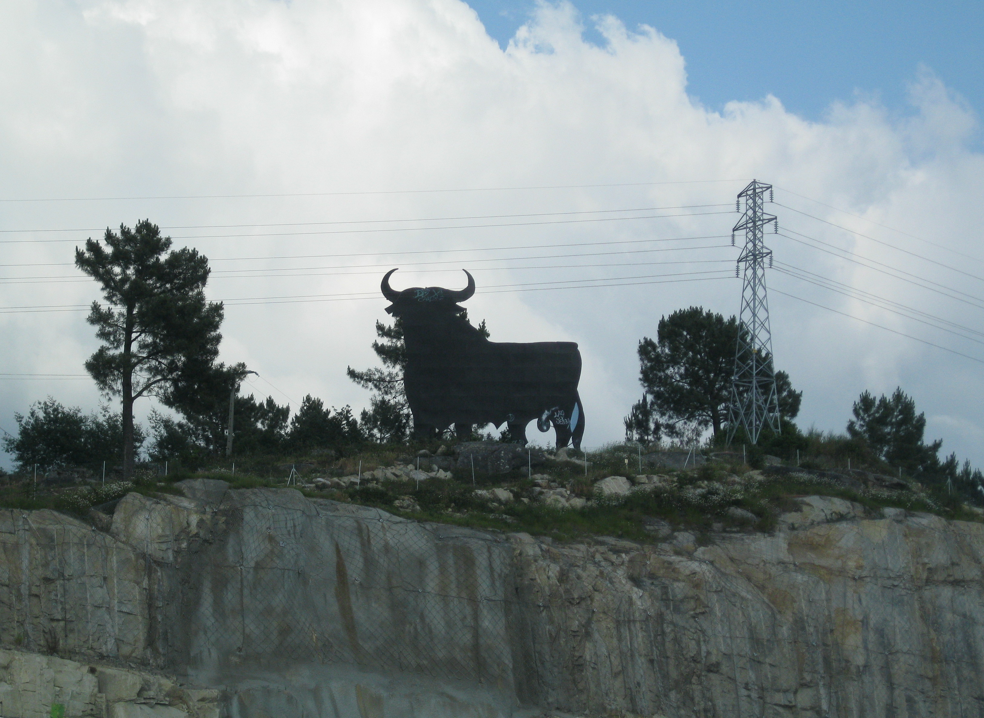 "Toro de Osborne" (Osborne's bull) in Ponte Sampaio, Pontevedra, Galicia, Spain.